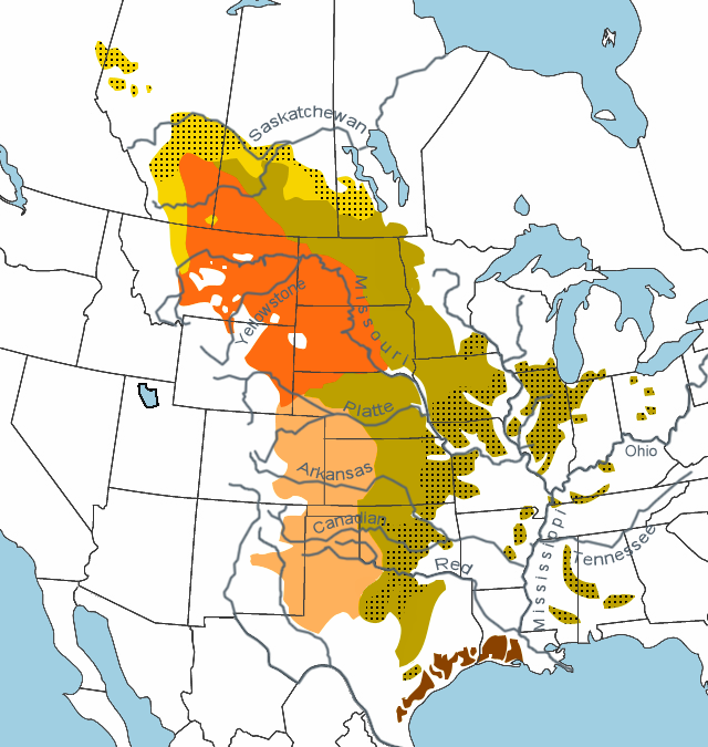 Biogeographical map of the Great Plains. Legend Northern damp fescue prairie Central mixed grass prairie Eastern tallgrass prairie Western dry shortgrass prairie Southern damp coastal prairie black pointed = Parkland or Savannah